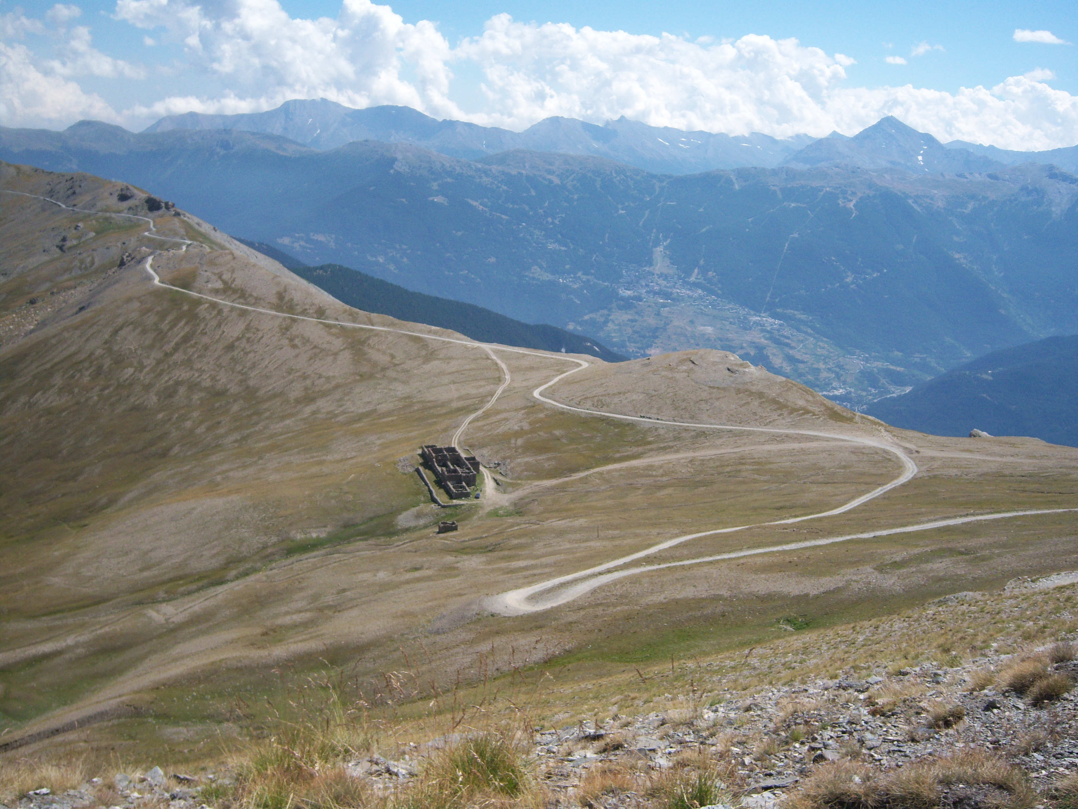 The road of Fort Jafferau towards Col Basset